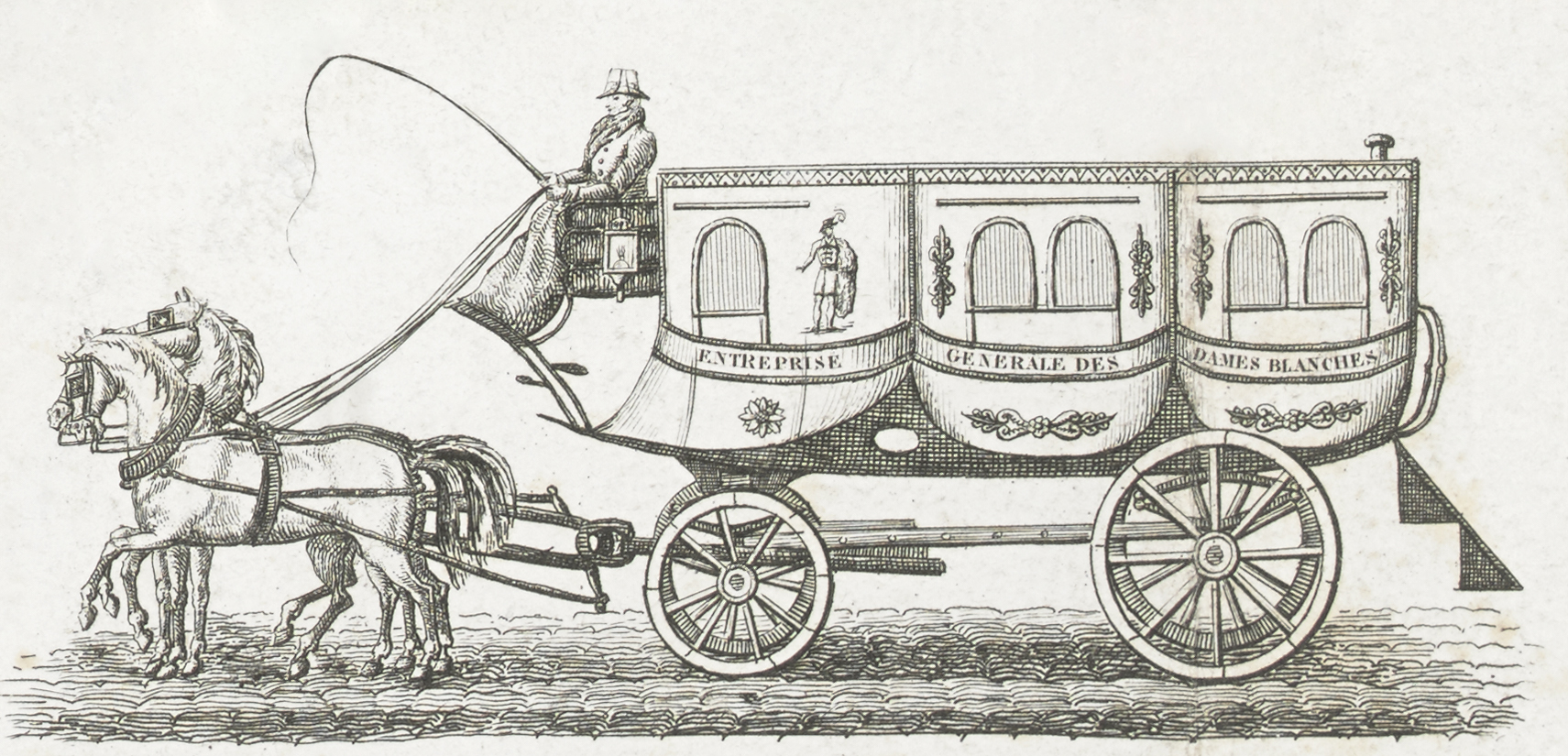 Illustration of the car "Entreprise Générale des Dames Blanches" on an old map of Paris (Plan de la ville de Paris représentant les nouvelles voitures publiques).